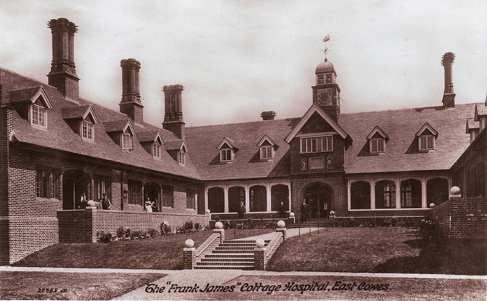 Photo of Frank James Memorial Hospital in East Cowes. This was when it was called the "Cottage Hospital".